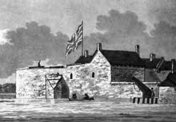 Yarmouth Castle 1797 - trimmed